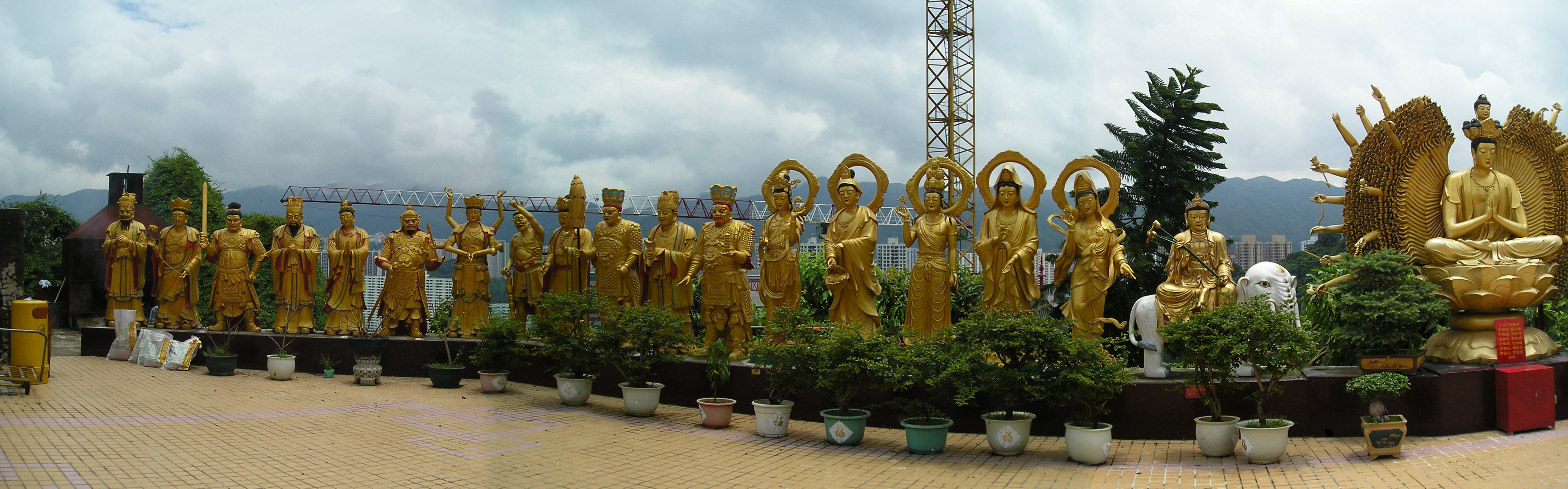 Panoramics in Hong Kong